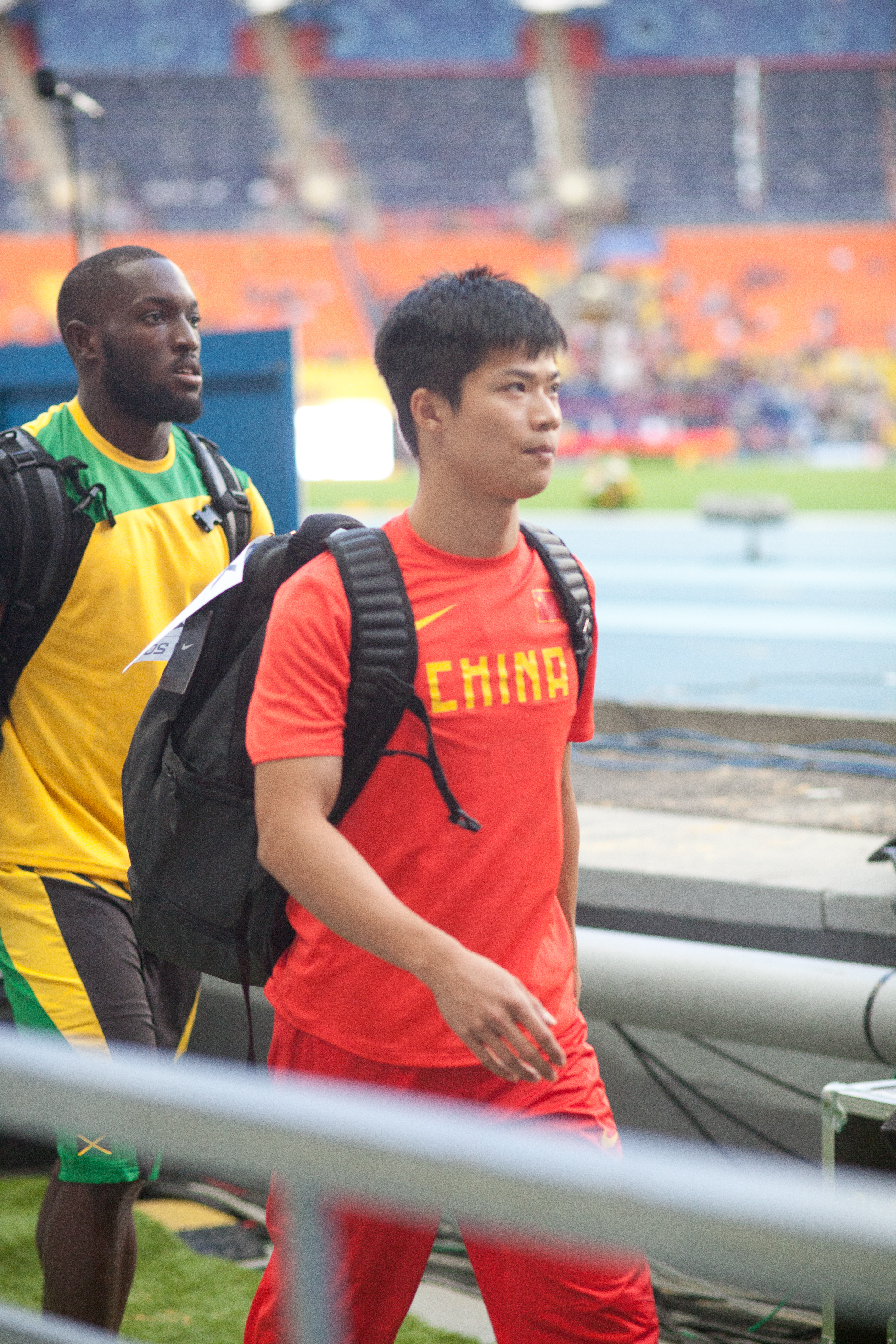 Su Bingtian and Nickel Ashmeade athlete during 2013 World Championships in Athletics in Moscow.